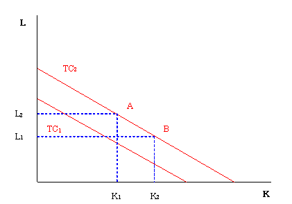 Isocost map